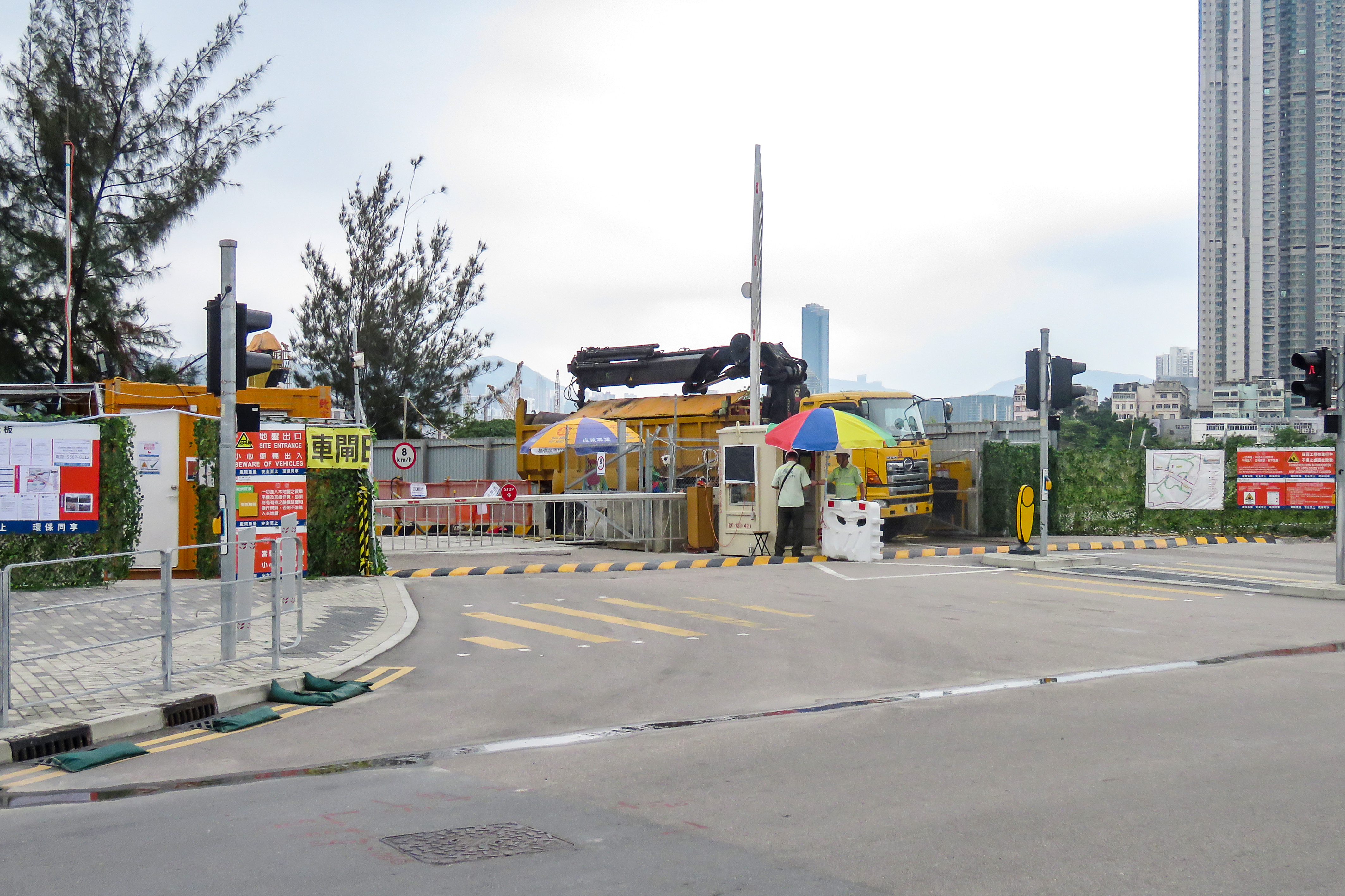 Currently nothing along the west section of Shing Kai Road, but the construction of a sports park has started...